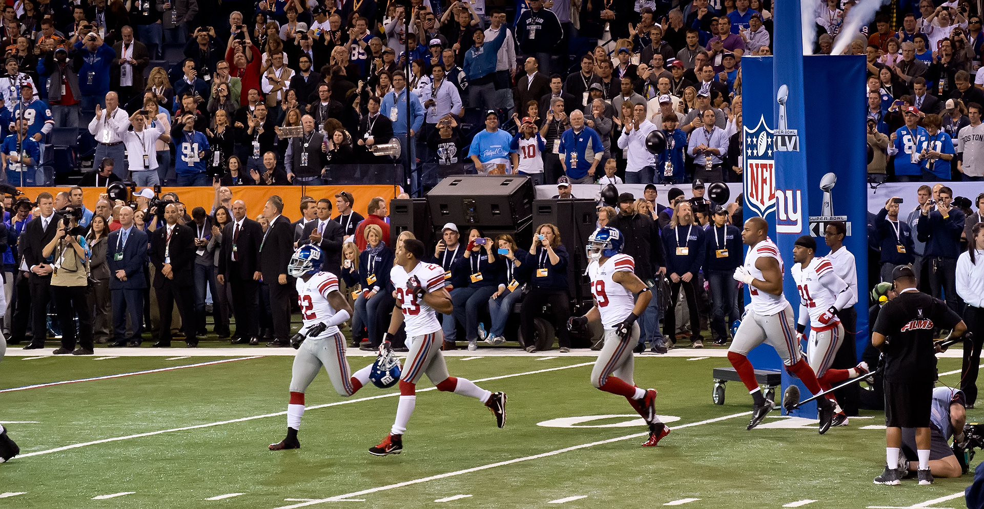 New York Giants players enter the field for Super Bowl XLVI. Left to right: #22 safety Derrick Martin, #23 cornerback Corey Webster, #59 linebacker Michael Boley, #12 wide receiver Jerrel Jernigan, and #31 cornerback Aaron Ross.